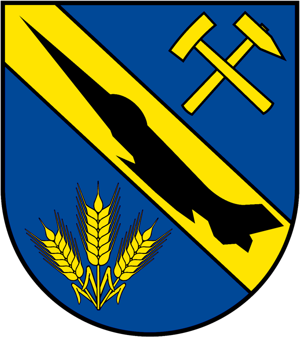 Coat of arms of Hahn